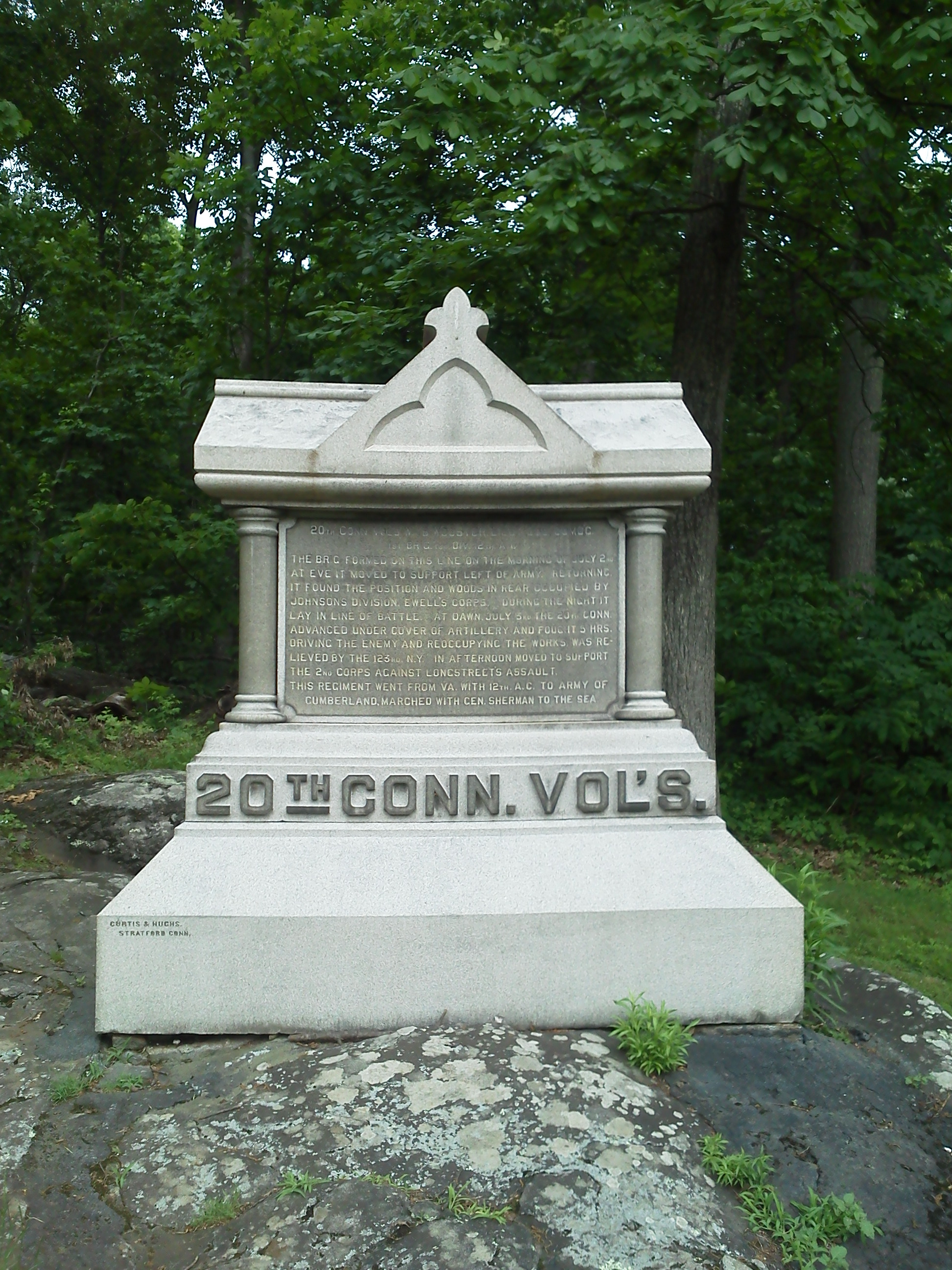 The 20th Connecticut Infantry monument found at Gettysburg Battlefield